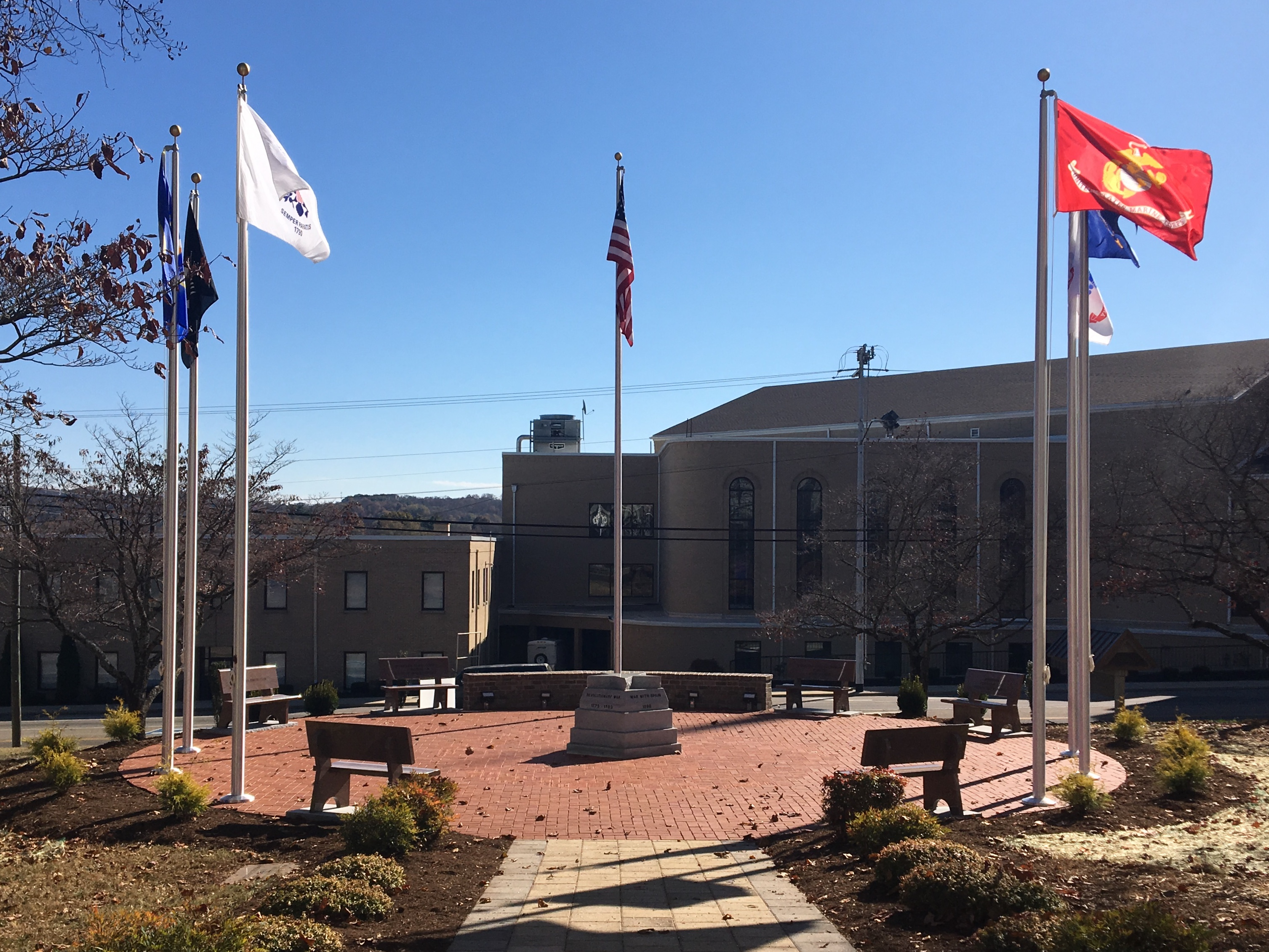 The Hamblen County Veterans Memorial on the front lawn of the Hamblen County Courthouse in November 2019.